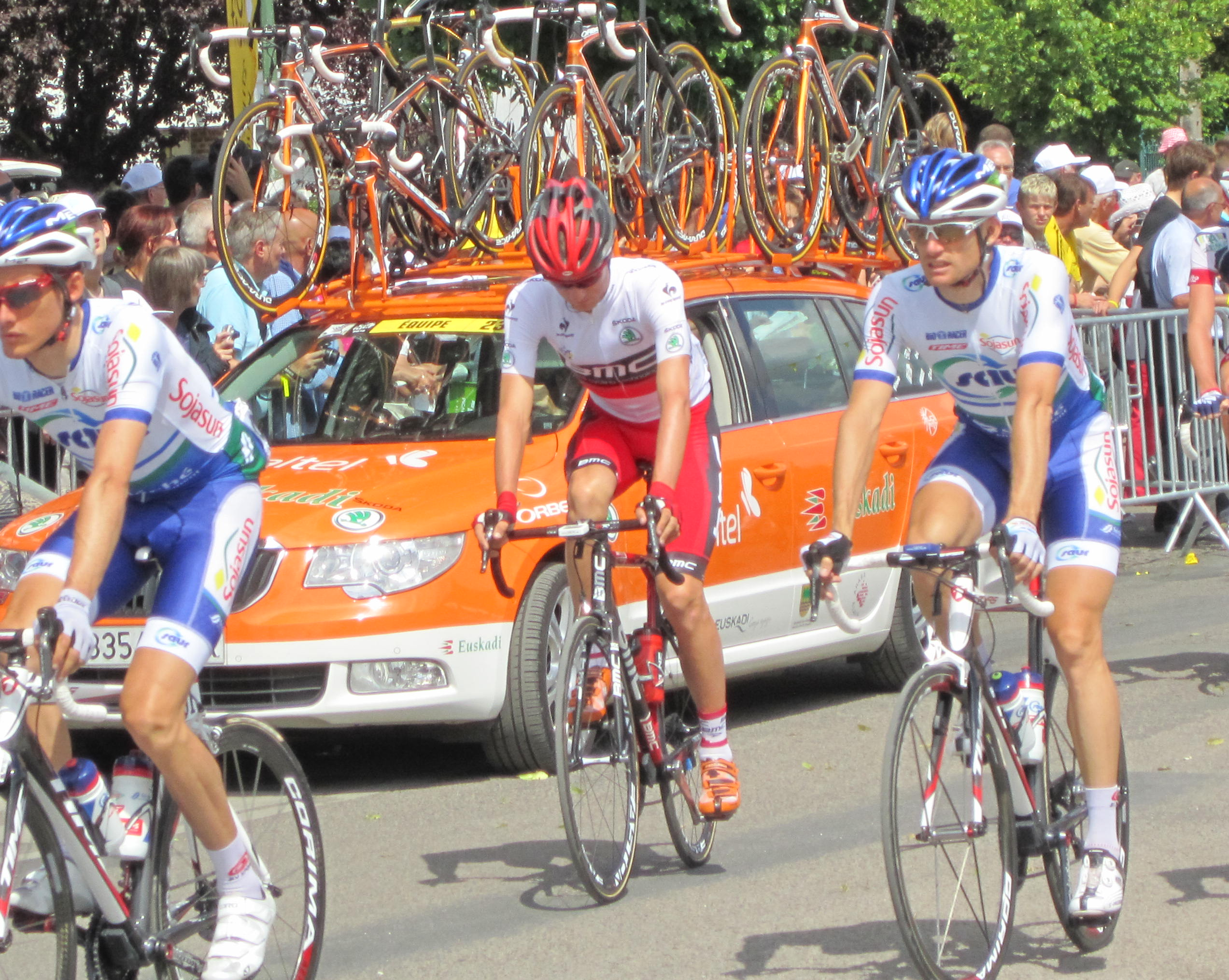 Just before the start (Fourth stage Tour de France 2012), Tejay van Garderen with two cyclists of Saur-Sojasun Team.